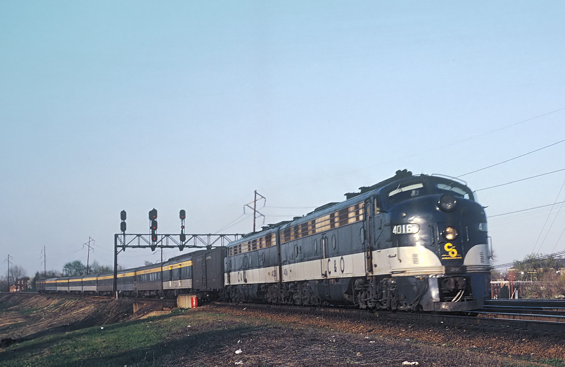 The westbound George Washington arriving at Alexandria, Virginia in April 1969